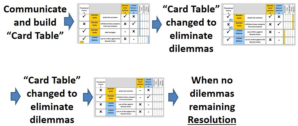 Diagram illustrating the process of Confrontation Analysis